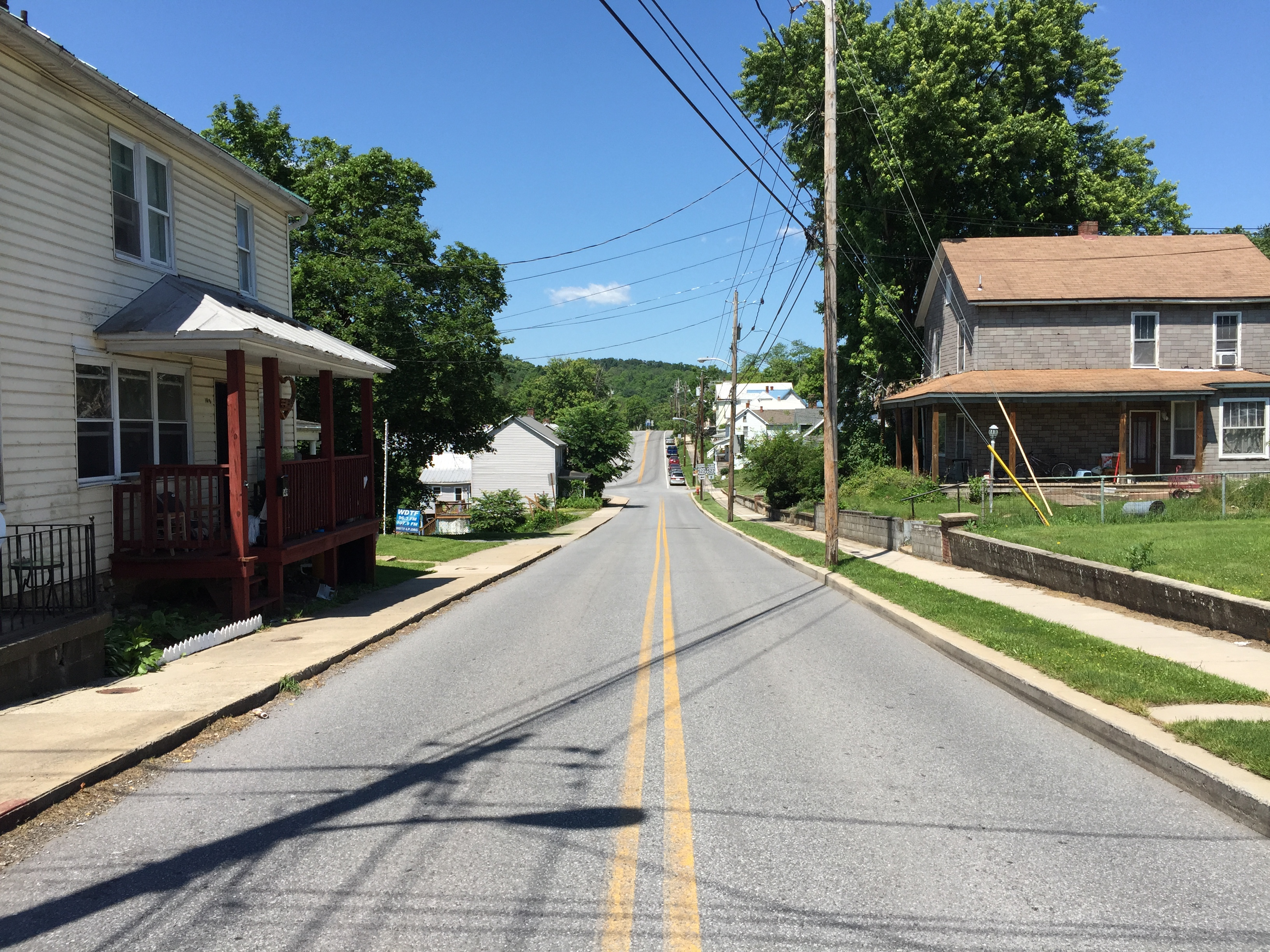 View west at the east end of Maryland State Route 735 (High Street) at Methodist Avenue in Hancock, Allegany County, Maryland